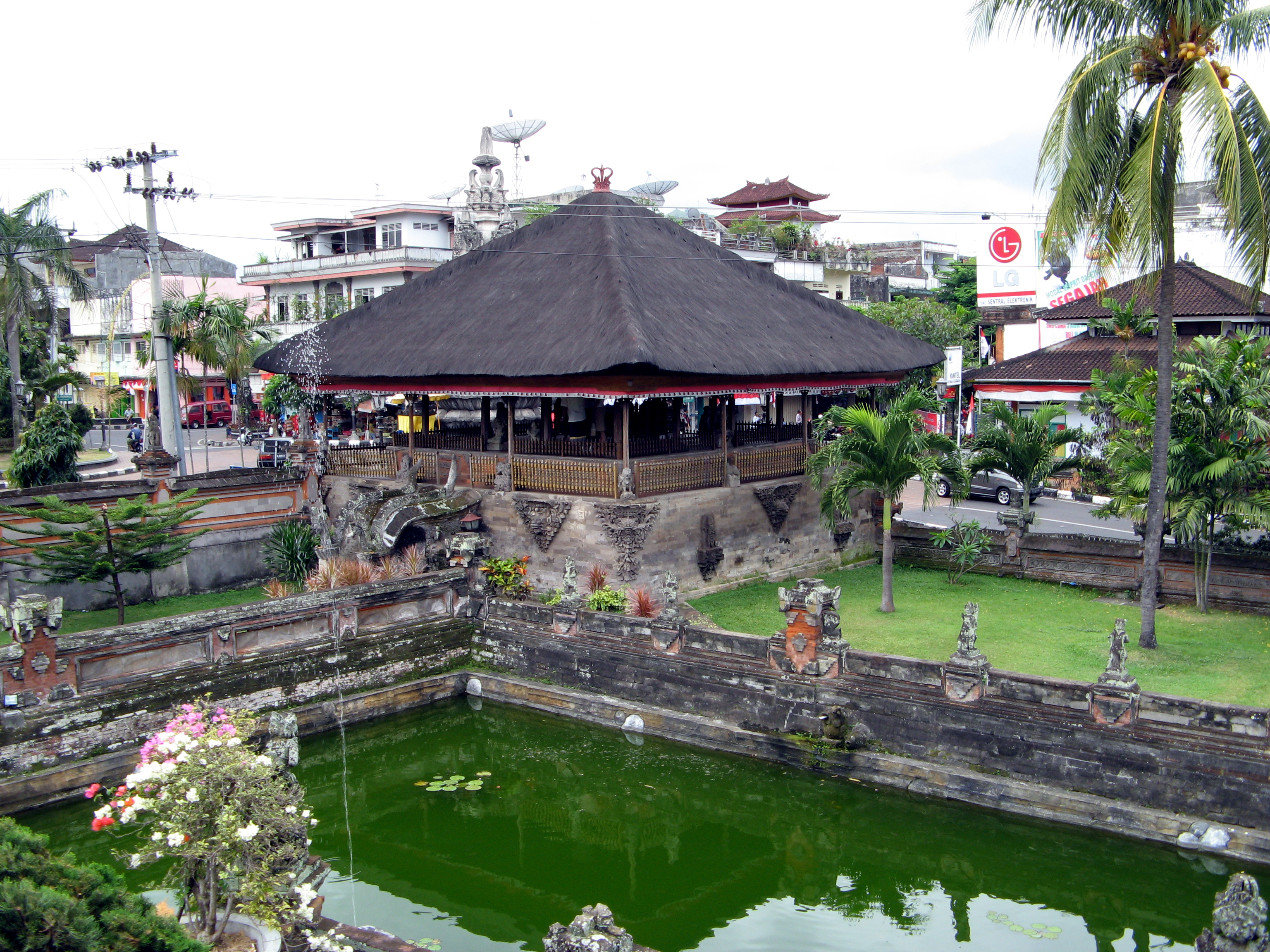 Like the royal temple at Taman Ayun, the remains of the royal palace at Taman Gili provide a good example of what might be called "20th century Traditional" architectural style; the original (1710) Klungkung Palace was destroyed by the Dutch, following a native rebellion in 1908. A few of the structures were later rebuilt, and incorporated into the present park. The Hall Of Justice, where the king used to hear legal cases, is seen here.